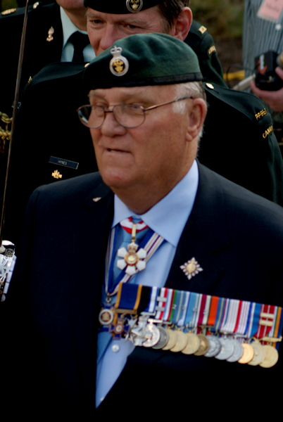 It was an auspicious day when retired Colonel Donald Ethell OC, OMM, AOE, MSC, CD was sworn in as Alberta's provincial Lieutenant Governor on Tuesday, May 11, 2010 at Alberta's Legislature Building in the capital city of Edmonton. Armed forces were present at the swearing in ceremony which was accompanied by the traditional 15 gun salute which marks the taking of the oaths of office This illustration was made by Julia Adamson Please credit this if used outside Wikipedia